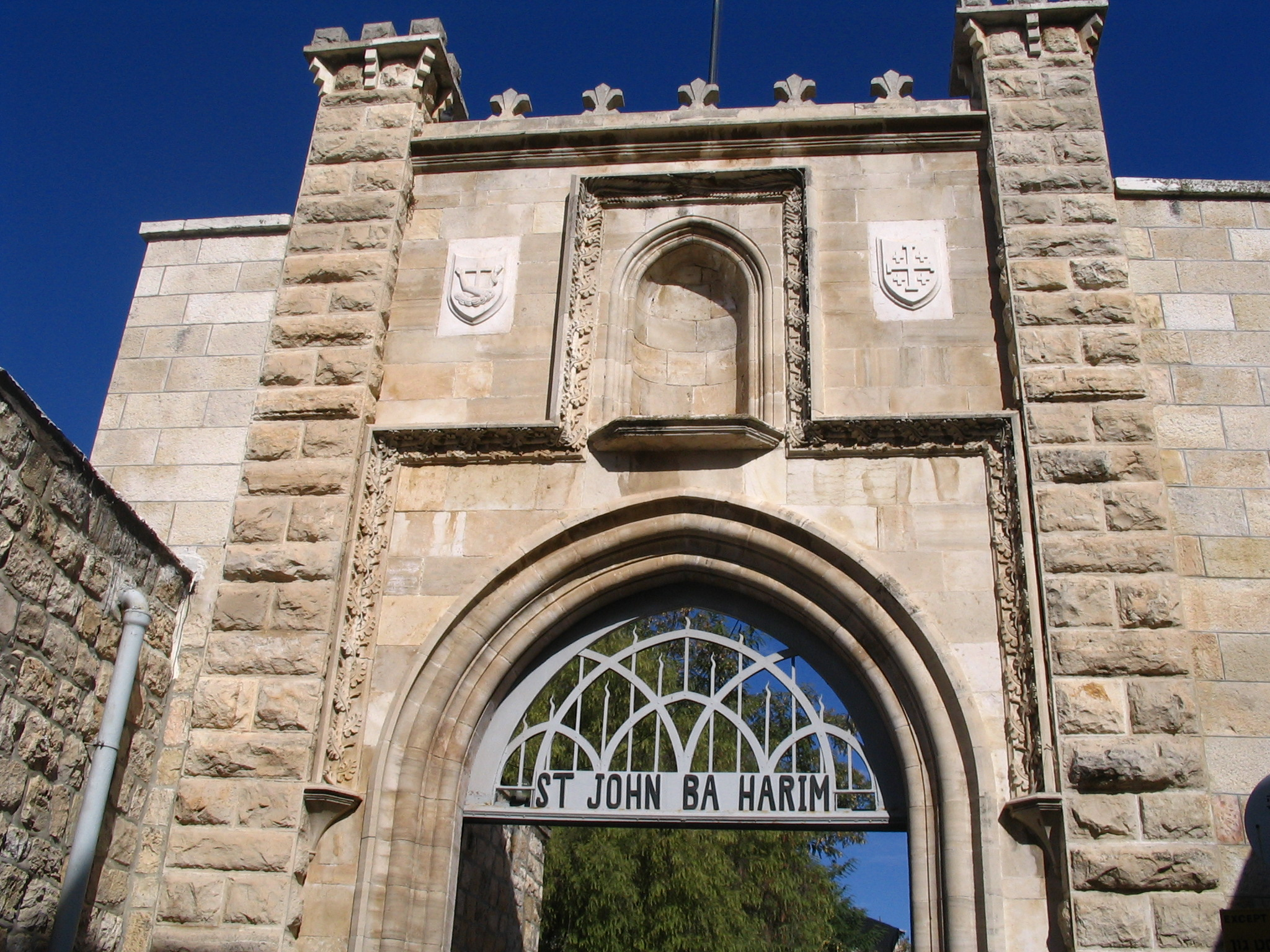 Ein Kerem, St John ba Harim